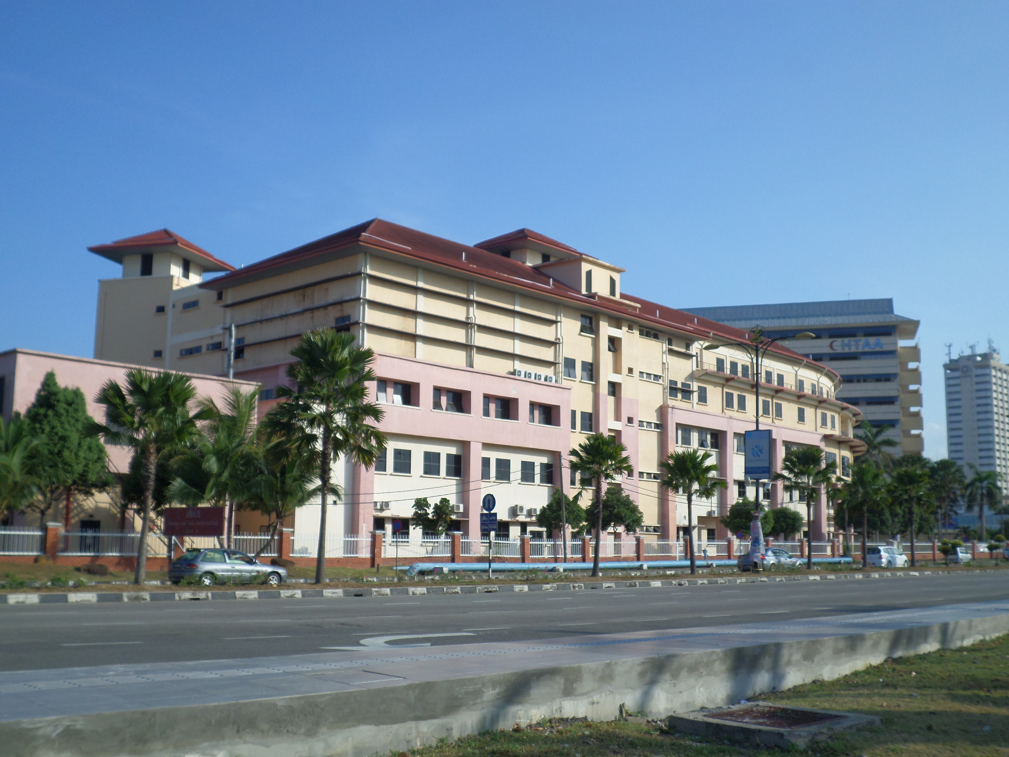 Tengku Ampuan Afzan Hospital, Kuala Kuantan, Kuantan, Pahang, Malaysia